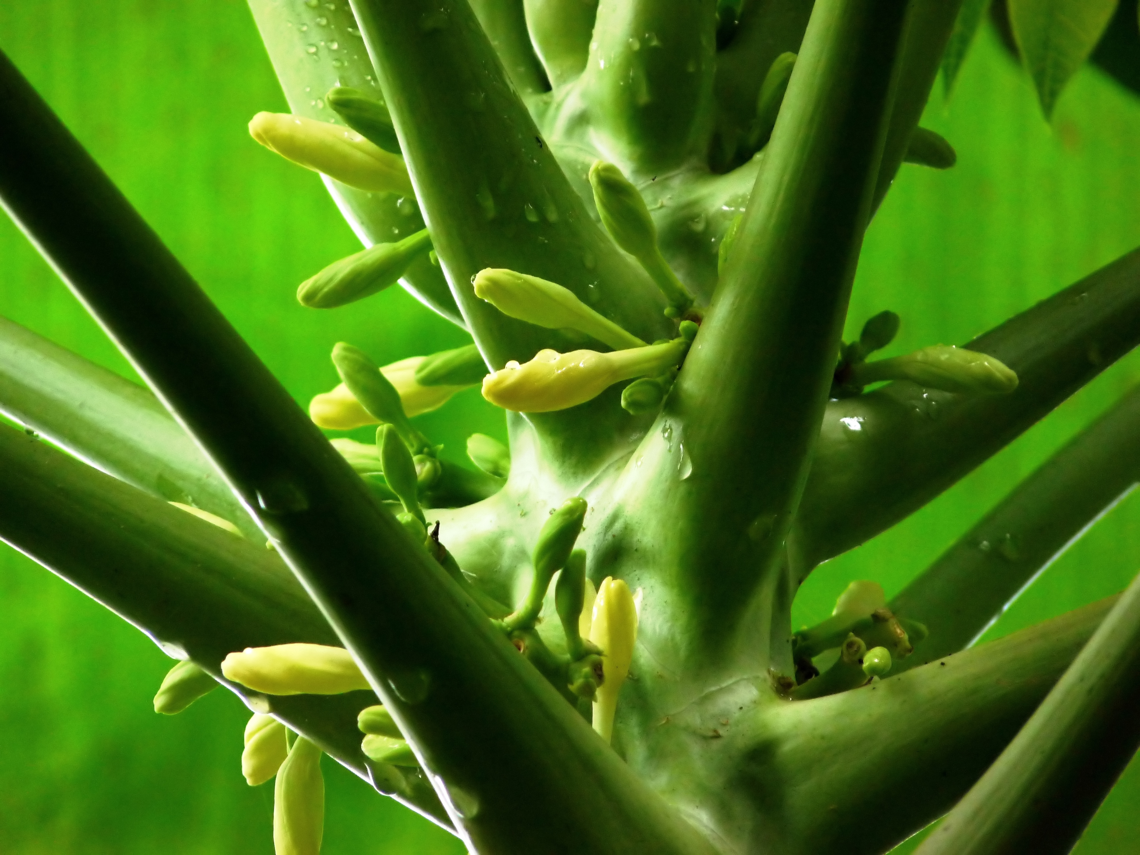 The papaya, papaw, or pawpaw is the fruit of the plant Carica papaya, the sole species in the genus Carica of the plant family Caricaceae. It is native to the tropics of the Americas, perhaps from southern Mexico and neighbouring Central America. It was first cultivated in Mexico several centuries before the emergence of the Mesoamerican classical civilizations.